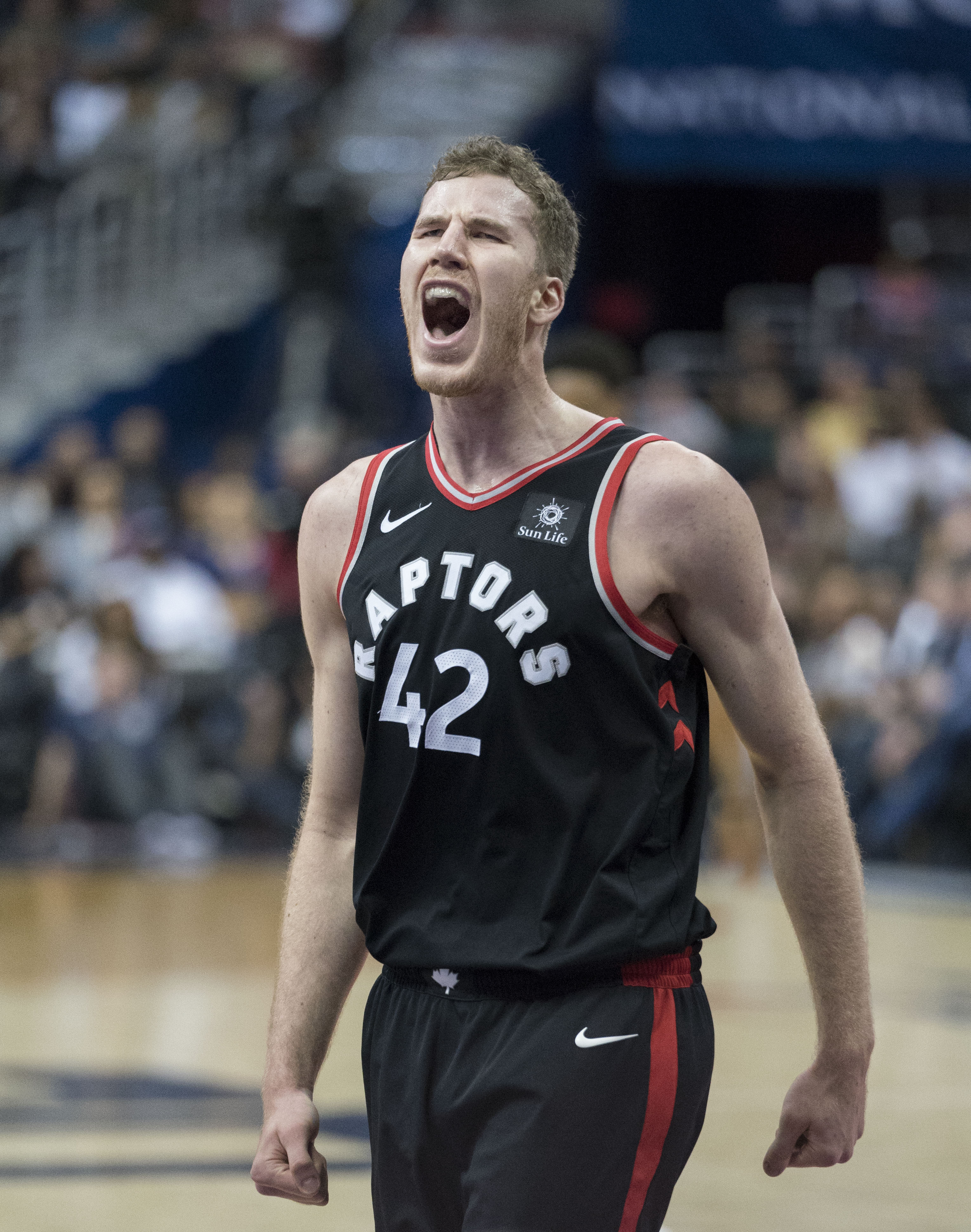 Raptors at Wizards 3/2/18